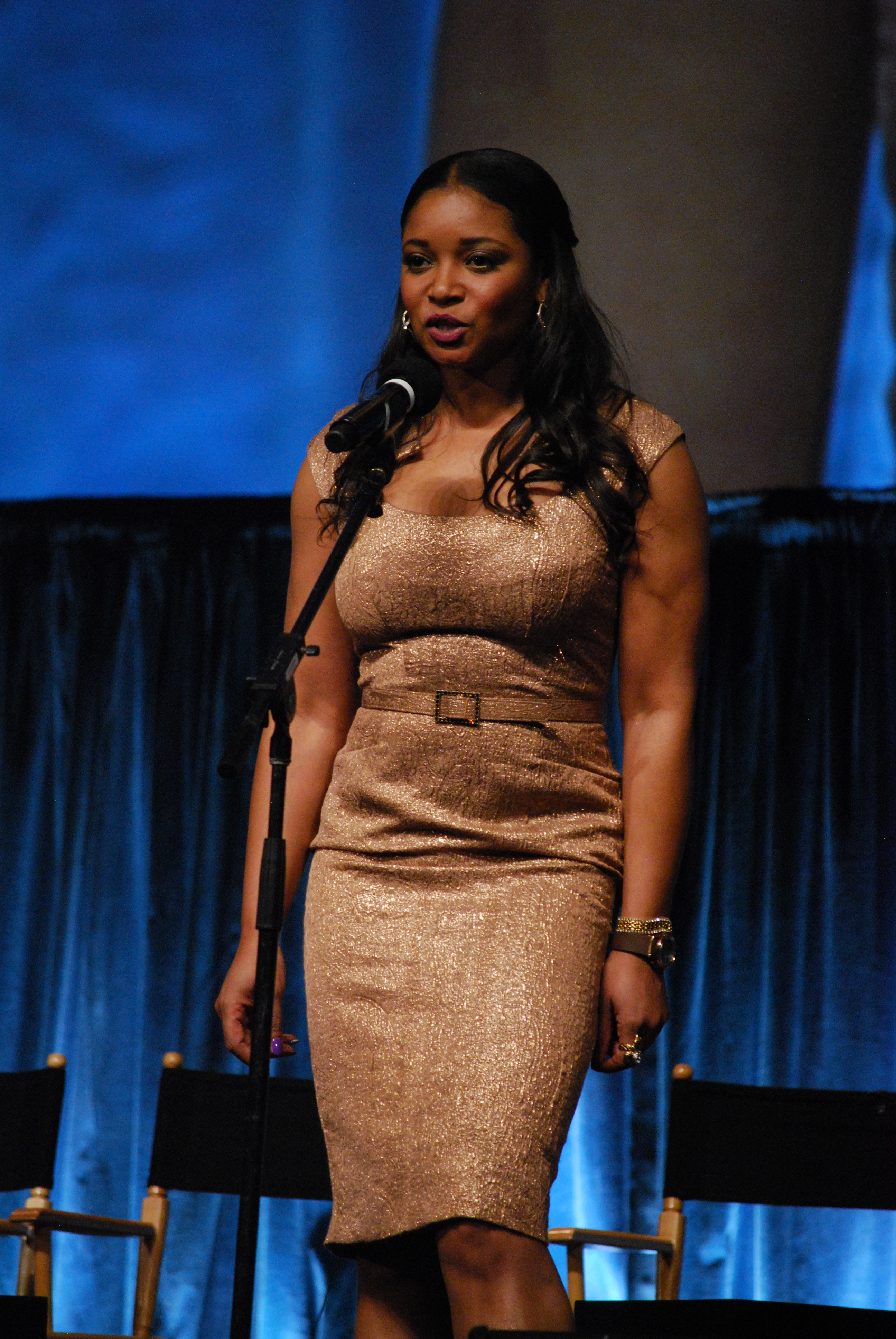 Singing before the panel.